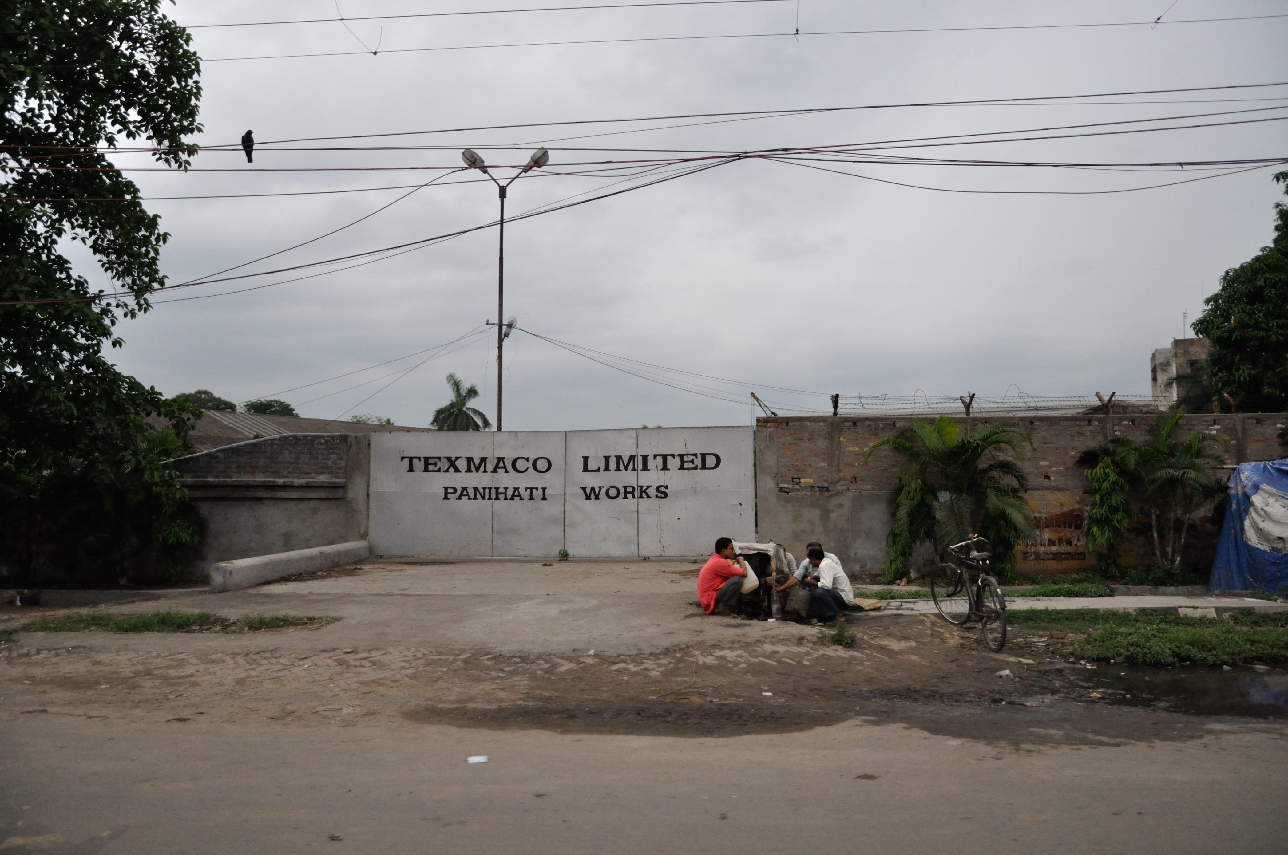 photographed in greater Kolkata.